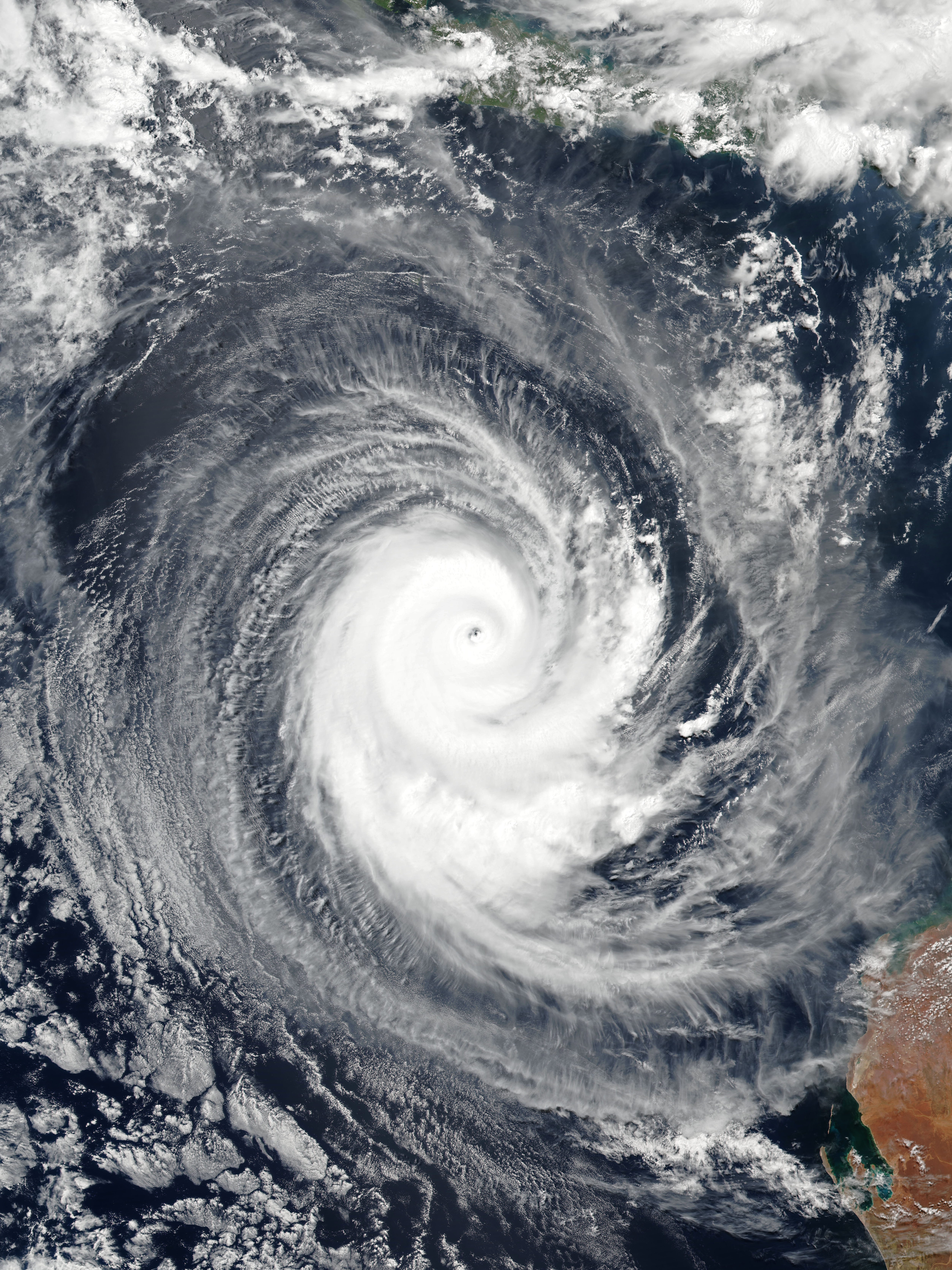 Severe Tropical Cyclone Marcus shortly after peak intensity on 22 March 2018, located to the northwest of Western Australia.